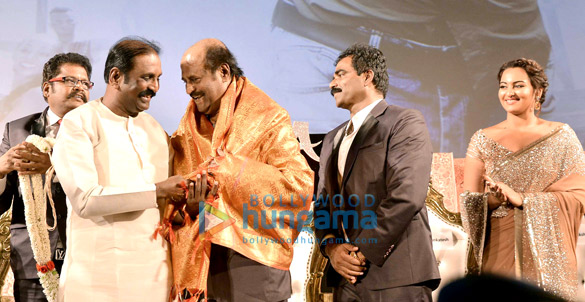 K.S. Ravikumar, Vairamuthu, Rajinikanth, Rockline Venkatesh and Sonakshi Sinha at the audio launch of Lingaa (2014)